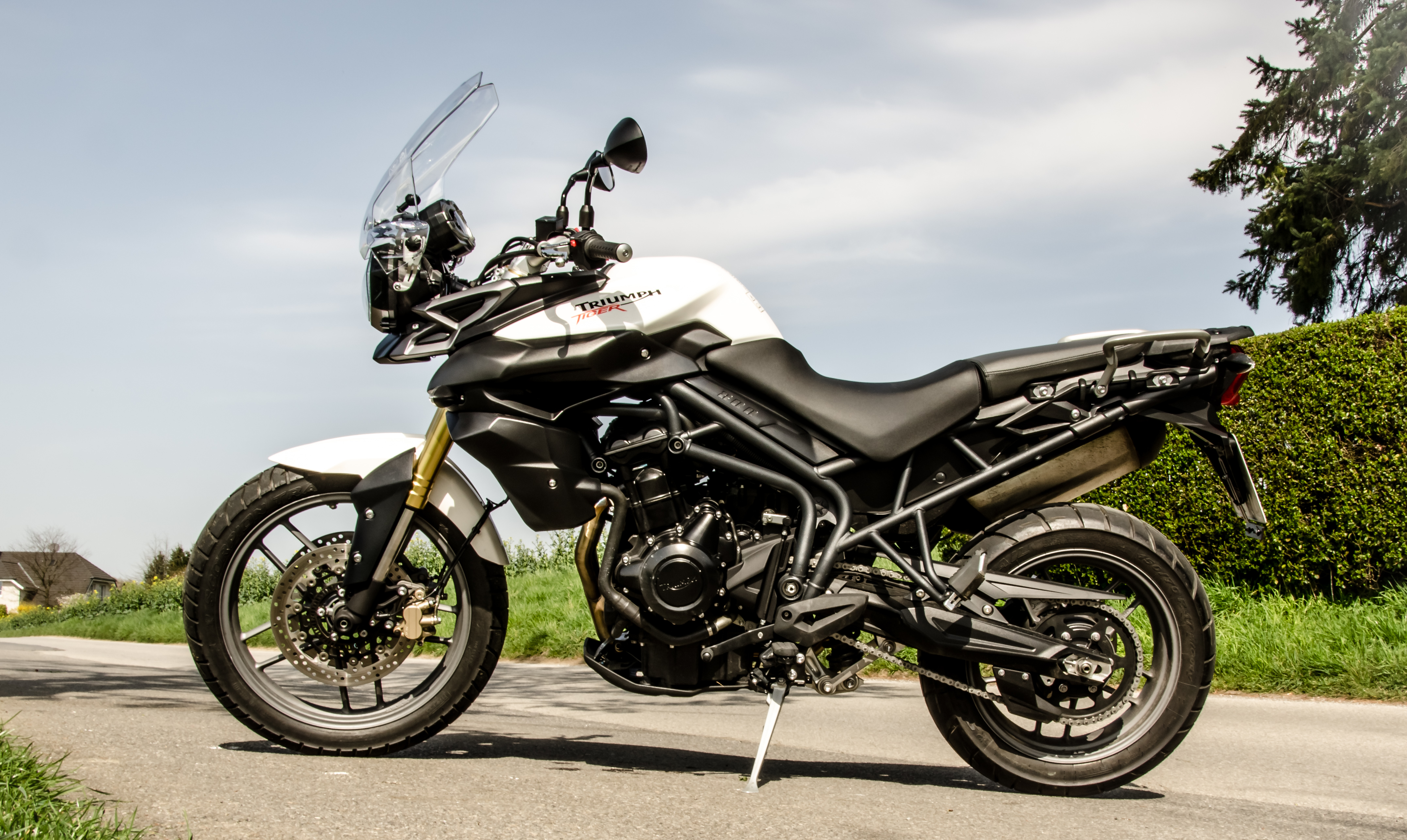 Triumph Tiger 800 (white, model year 2012)